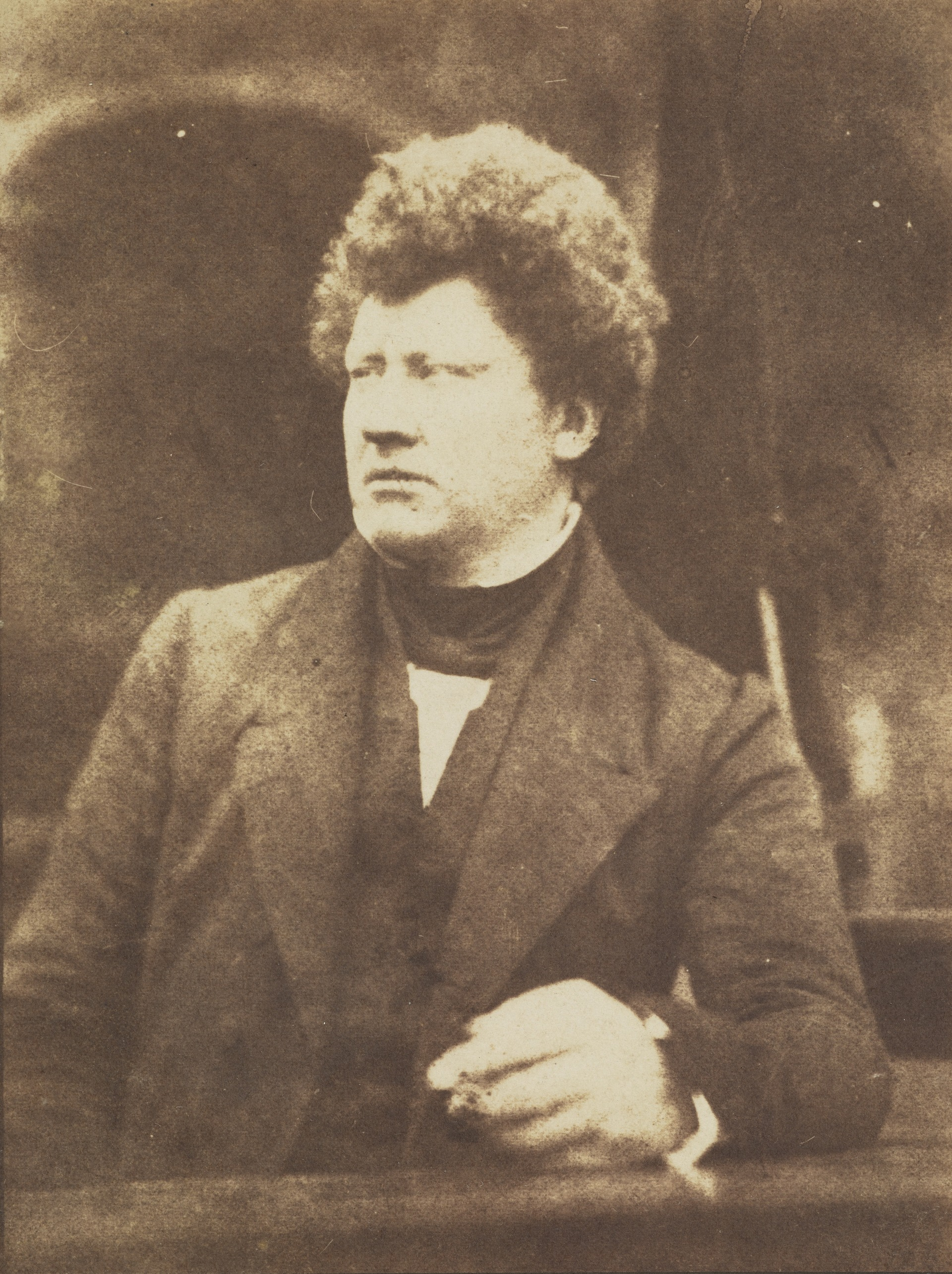 National Galleries Scotland David Octavius Hill & Robert Adamson Rev. Dr William Cunningham, 1805 - 1861. Principal of New College, Edinburgh, 1847